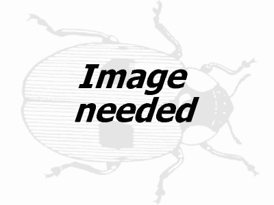 Placeholder for missing pictures of Coccinellidae Based on Image:Snodgrass Adalia bipunctata.jpg (licensed {PD-USGov-USDA})